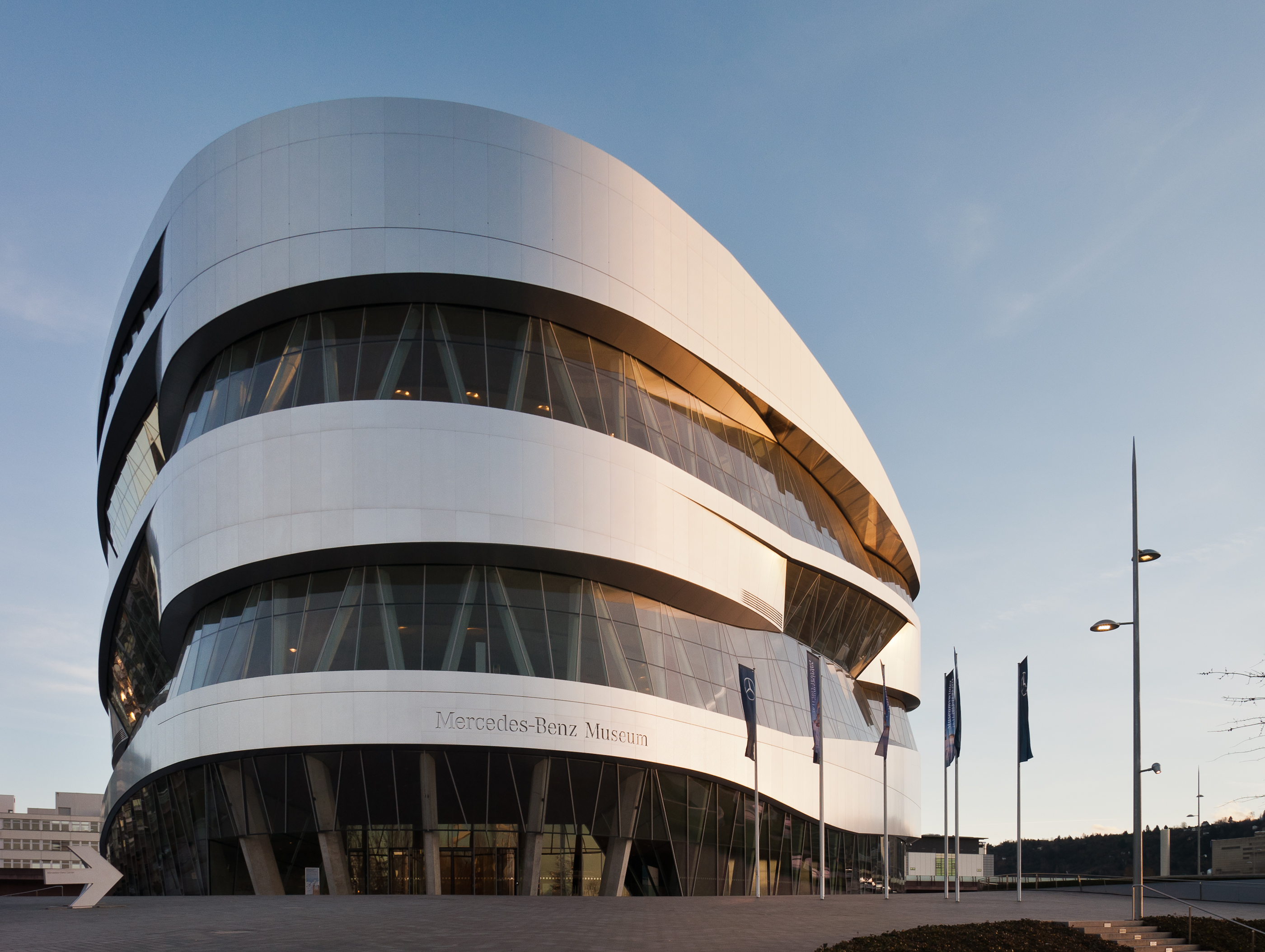 Mercedes-Benz Museum in Stuttgart, Germany, shortly before sunset.